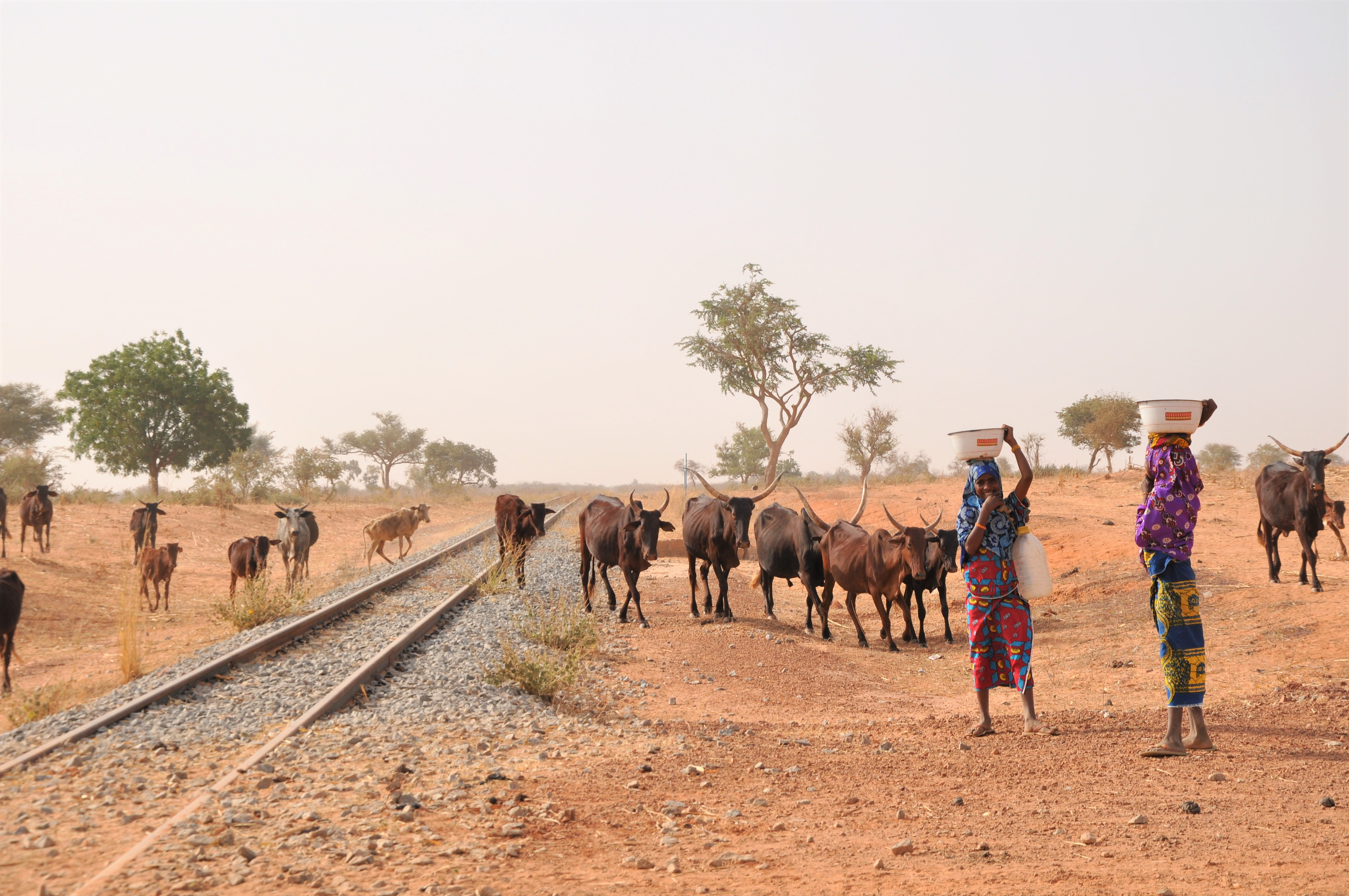 Cattle crossing the Niamey-Dosso railway at Kodo, in Niger. The village of Kodo lies some 73 km to the southeast of Niamey. This railway was inaugurated on 29 January 2016 but has never seen a train.